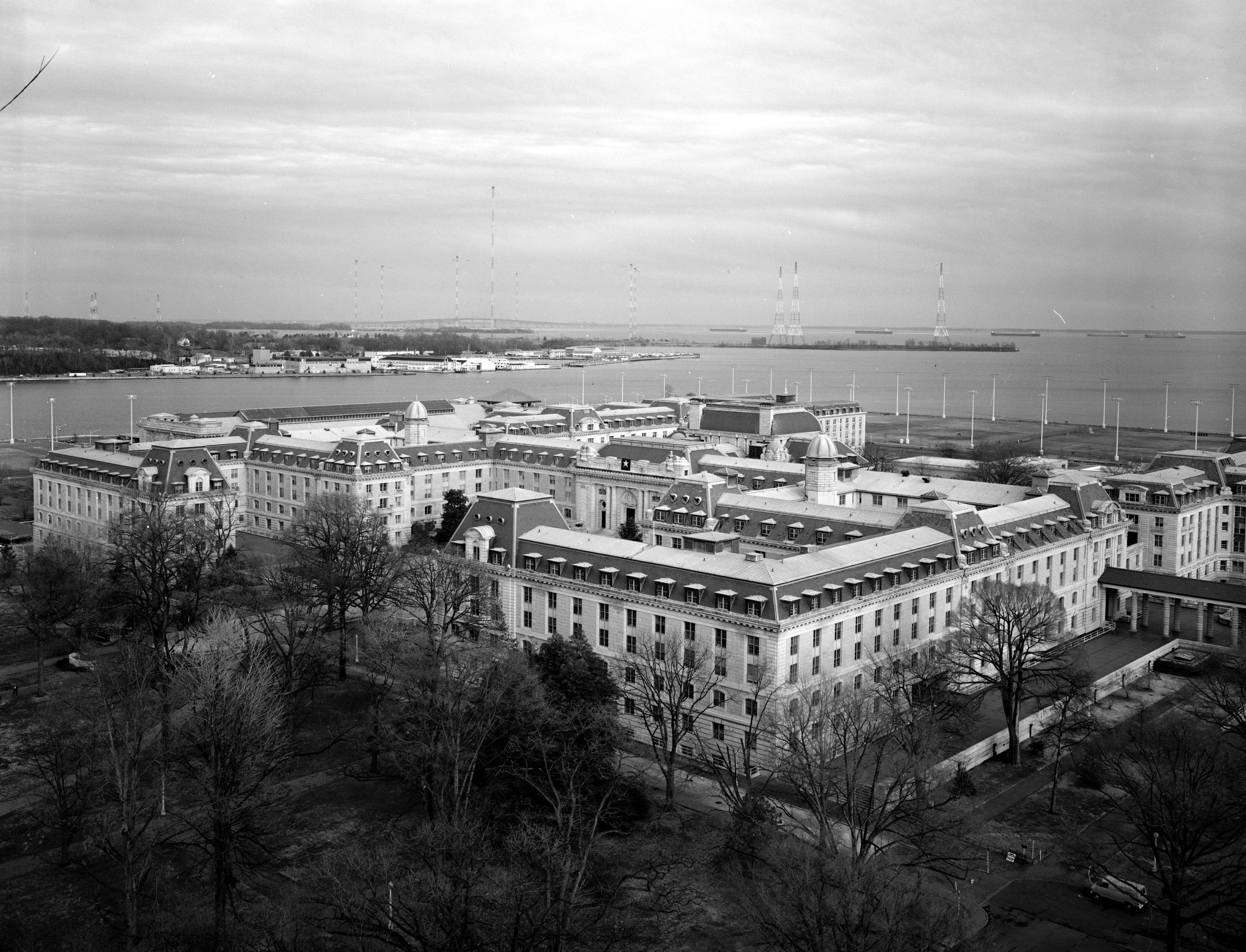 U.S. Naval Academy, Bancroft Hall, Annapolis, Anne Arundel County, MD Northwest and southwest sides from top of chapel dome. Photo taken in 1980 or 1981.